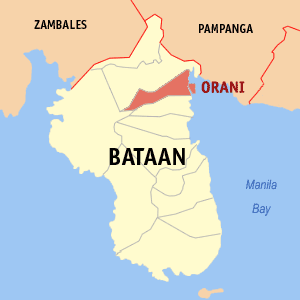 Map of Bataan showing the location of Orani